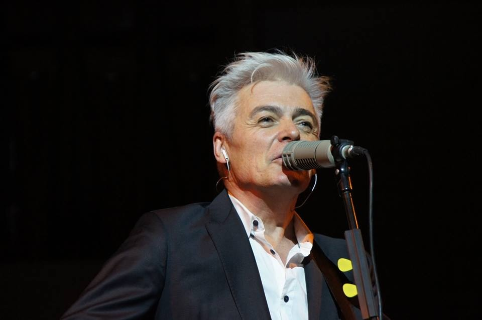 Daniel Lavoie singing